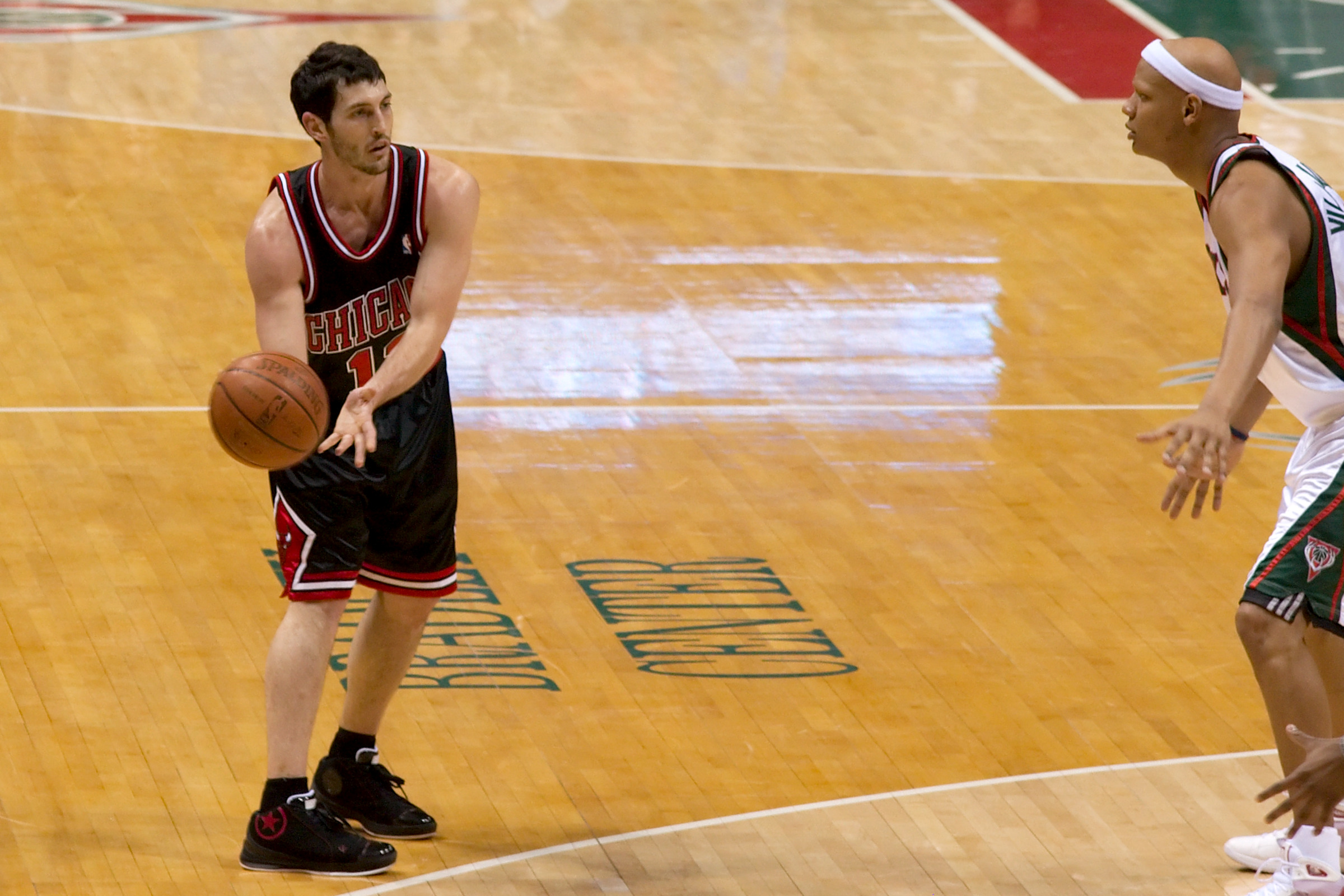 Kirk Hinrich of the Chicago Bulls in a game versus the Milwaukee Bucks